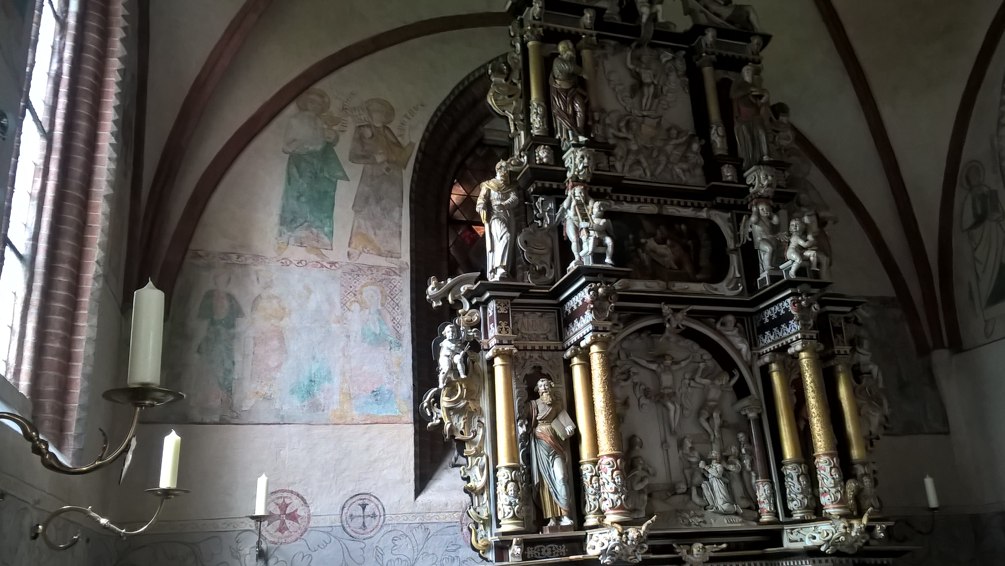 Stadtkirche Neustadt in Holstein, Baroque altar of Hübner of 1643